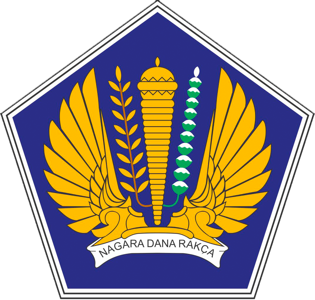 Logo of the Ministry of Finance of the Republic of IndonesiaBahasa Indonesia: Logo Kementerian Keuangan Republik Indonesia